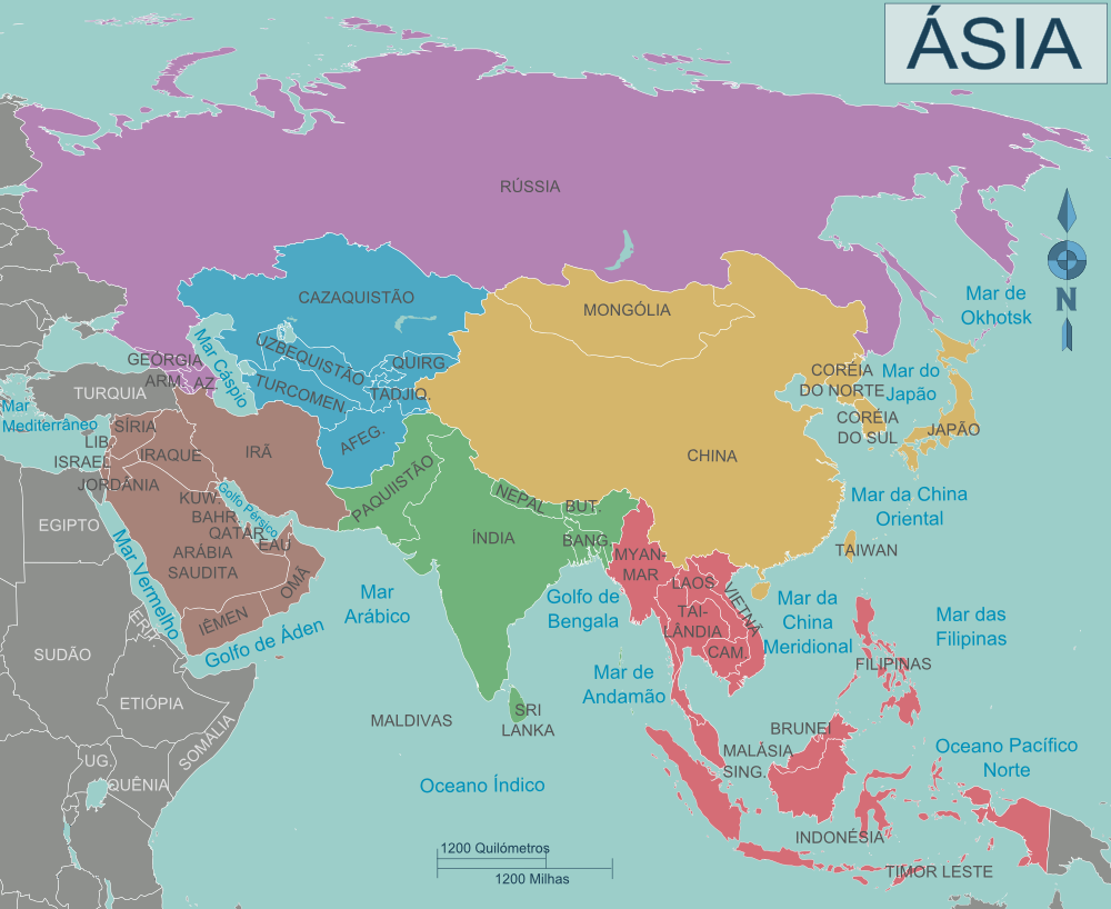 Map of Asia's regions and countries for use on Wikivoyage, Portuguese version